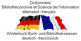 Two Flags